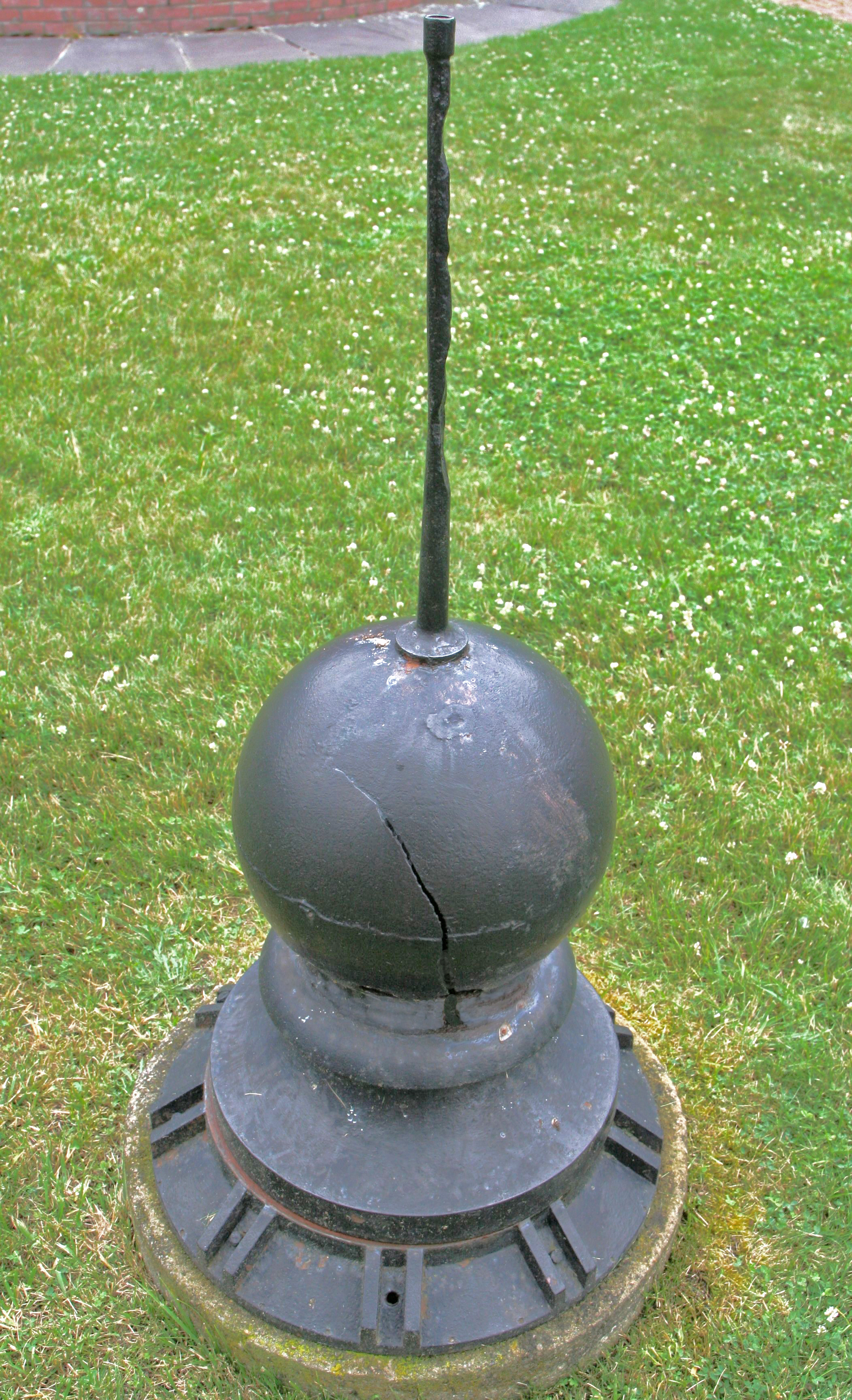 Original 1856 Gay Head Light lightning ball assembly mounted with straight-tipped Benjamin Franklin lightning rod spire. The assembly in this photo came from the top of the current Gay Head Light lighting room where the Fresnel lens was once installed. The Ben Franklin rod and support ball assembly shown in this photograph has apparently been struck several times by lightning - as evidenced by scars on the rod and the cracked ball. This lightning rod assembly is presently located on the Edgartown grounds of the Martha's Vineyard Museum.